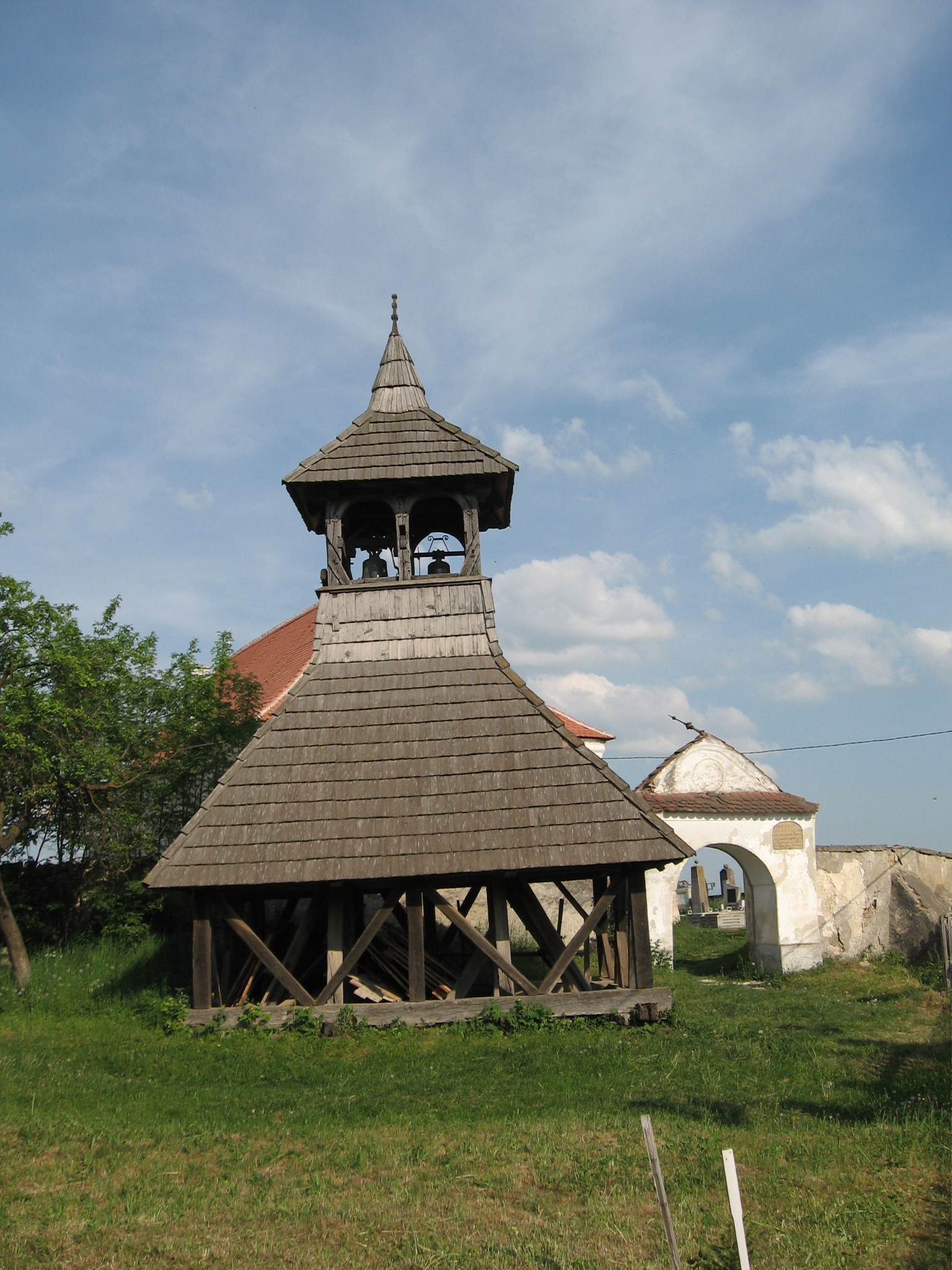 Covasna County ,Calnic, Reformed church' wooden belfrie, 18th century